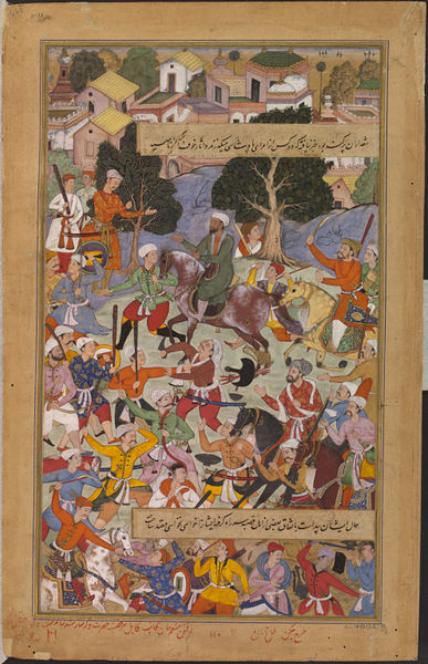 This is an illustration by the Mughal court artists Jagan and Naman to the Akbarnama (Book of Akbar) depicting the arrest of the rebel Mu’nim Khan during his flight from Kabul, in the far north of the Mughal empire (in present-day Afghanistan) in 1562. The image is overlaid by two bands of text extending from the top and bottom of the right-hand margin. The Akbarnama was commissioned by the Mughal emperor Akbar (r.1556–1605) as the official chronicle of his reign. It was written in Persian by his court historian and biographer, Abu’l Fazl, between 1590 and 1596, and the V&A’s partial copy of the manuscript is thought to have been illustrated between about 1592 and 1595. This is thought to be the earliest illustrated version of the text, and drew upon the expertise of some of the best royal artists of the time. Many of these are listed by Abu’l Fazl in the third volume of the text, the A’in-i Akbari, and some of these names appear in the V&A illustrations, written in red ink beneath the pictures, showing that this was a royal copy made for Akbar himself. After his death, the manuscript remained in the library of his son Jahangir, from whom it was inherited by Shah Jahan. The V&A purchased the manuscript in 1896 from Frances Clarke, the widow of Major General John Clarke, who bought it in India while serving as Commissioner of Oudh between 1858 and 1862.